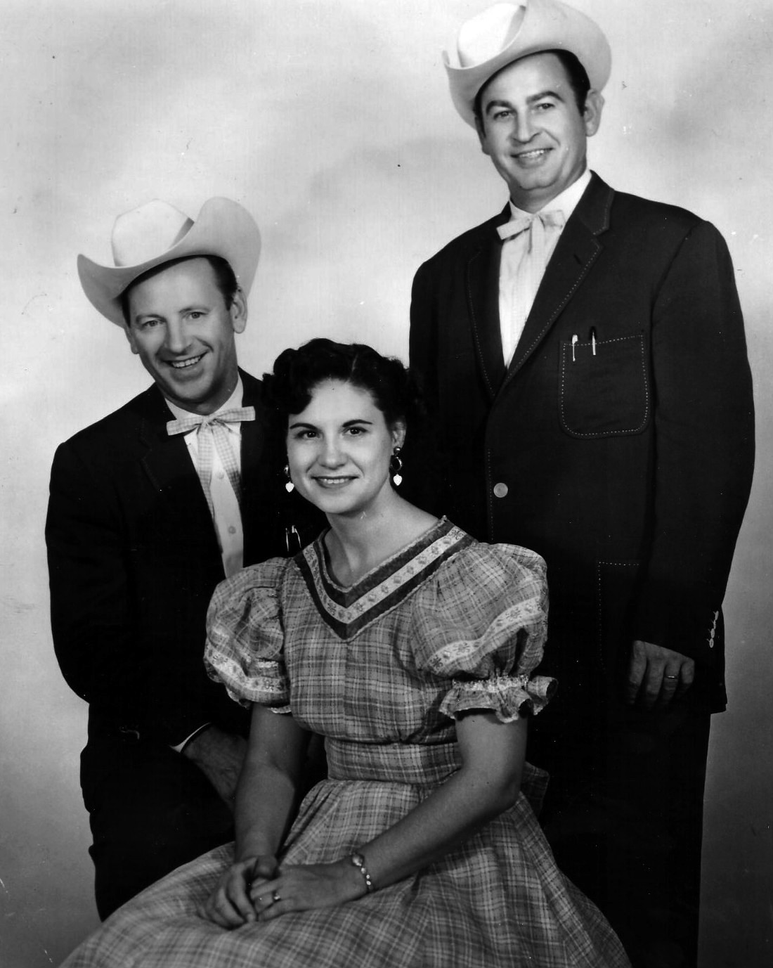 Photo of Johnnie Wright and Jack Anglin (Johnnie and Jack) with Kitty Wells. Wells and Wright were husband and wife.